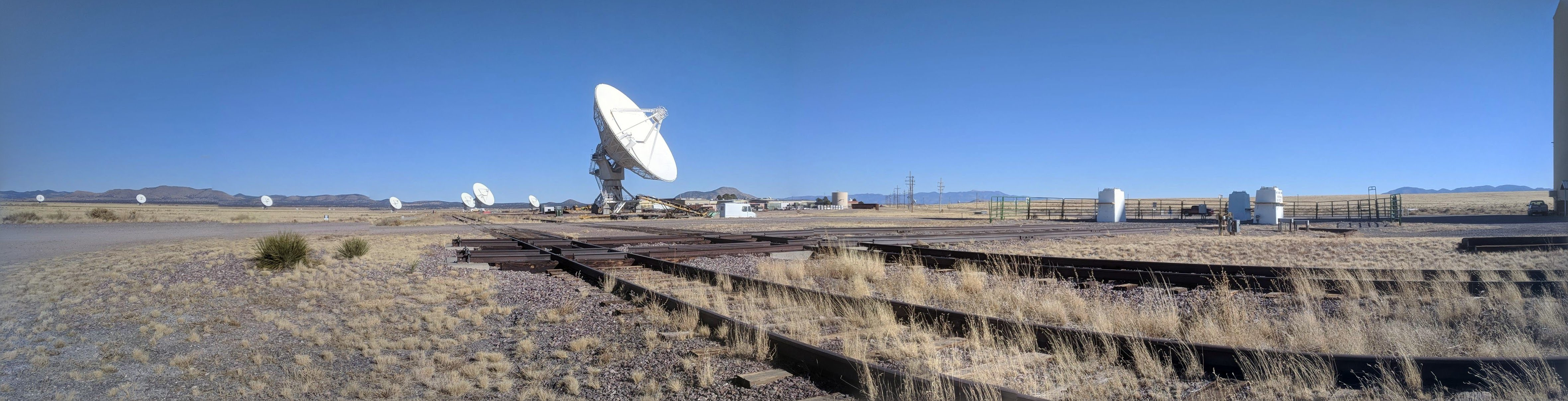 A panorama showing the cross rail track structure of the Very Large Array (VLA), including an empty antenna mount station on the right (the three concrete piers that the antenna's triangular base mounts to).